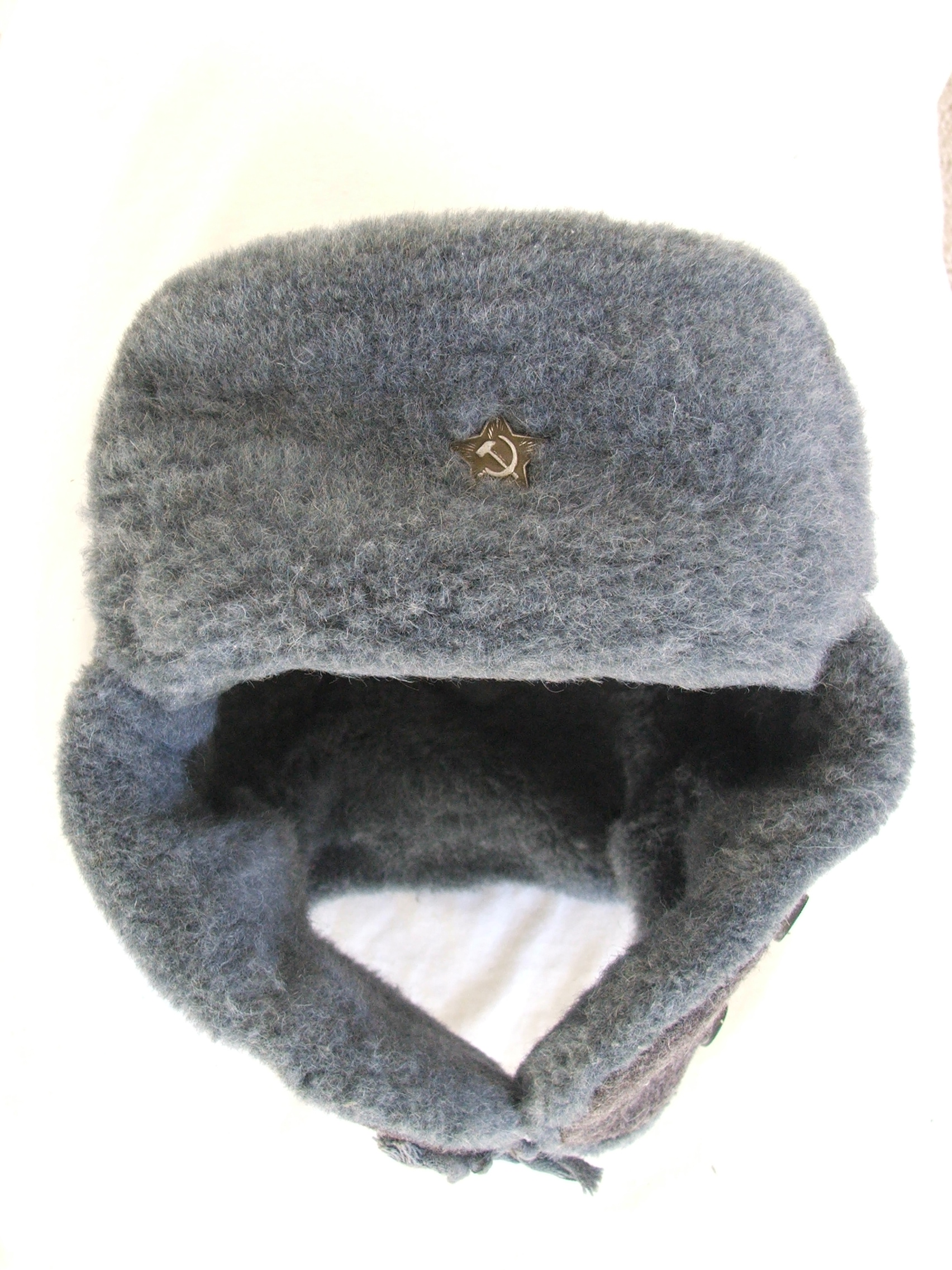 Ushanka of soldier of the Soviet Army. Made in 1988, in Babruysk.